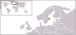 Location map for the Stockholm, Sweden. Originally created for English Wikipedia by Vardion.